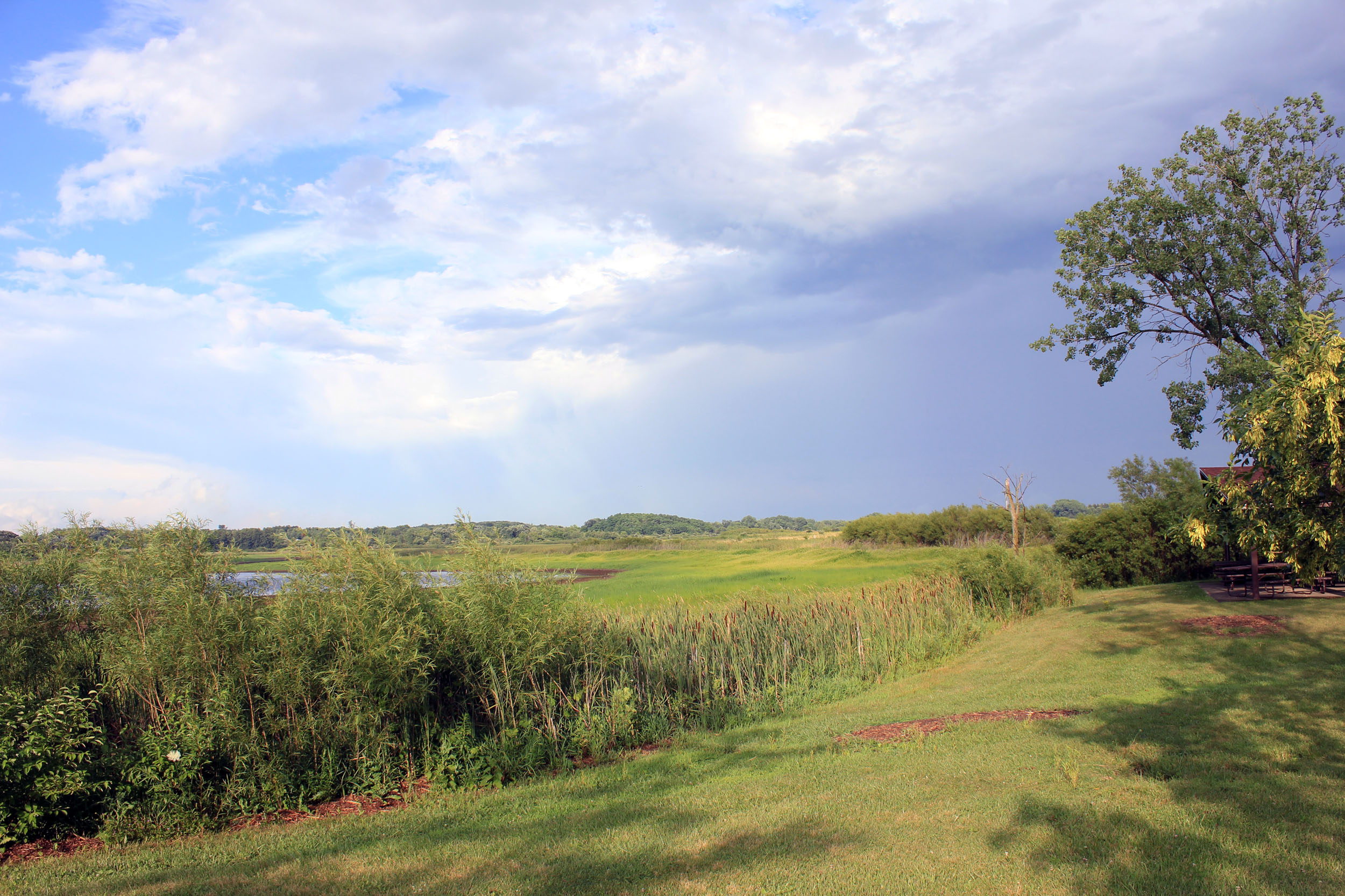 Richard Bong State Recreation Area is a large 4,500 acre state park in Kenosha country. It is mostly used for rocketry, dogsledding, falconing, ATV, hunting, an Clouds over landscape and sky